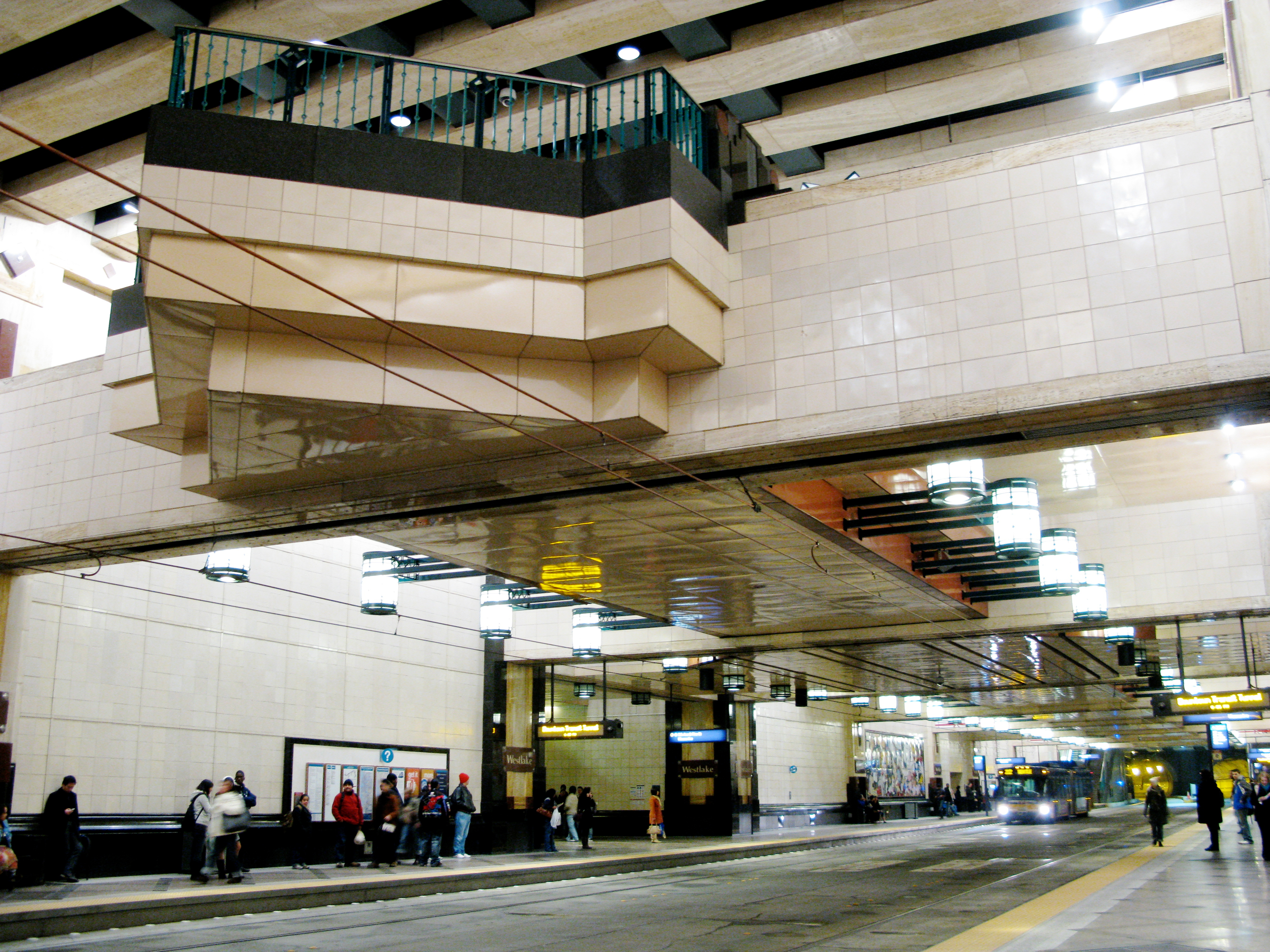 The platform of Westlake station under Downtown Seattle after the light rail retrofit.